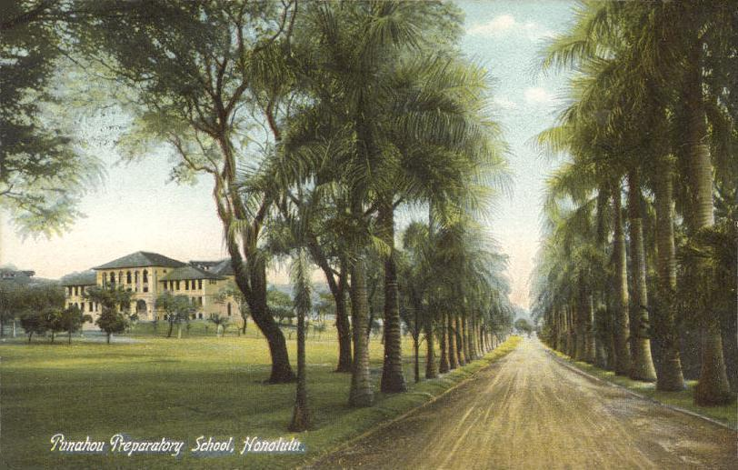 Punahou Preparatory School, Honolulu; from a 1909 postcard published by H. F. Hill, Honolulu, Hawaii.